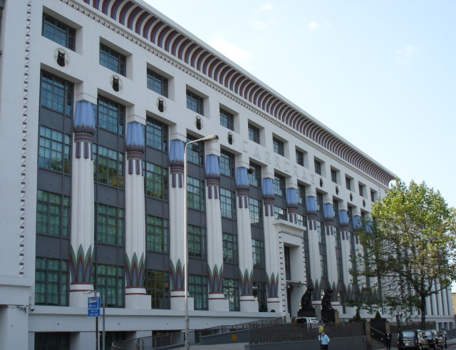 Photo taken by lonpicman The image was transferred from en.wiki, see it at Image:Carreras Building.jpg, under a GFDL license. Wars, Wars 20:30, 4 March 2006 (UTC)